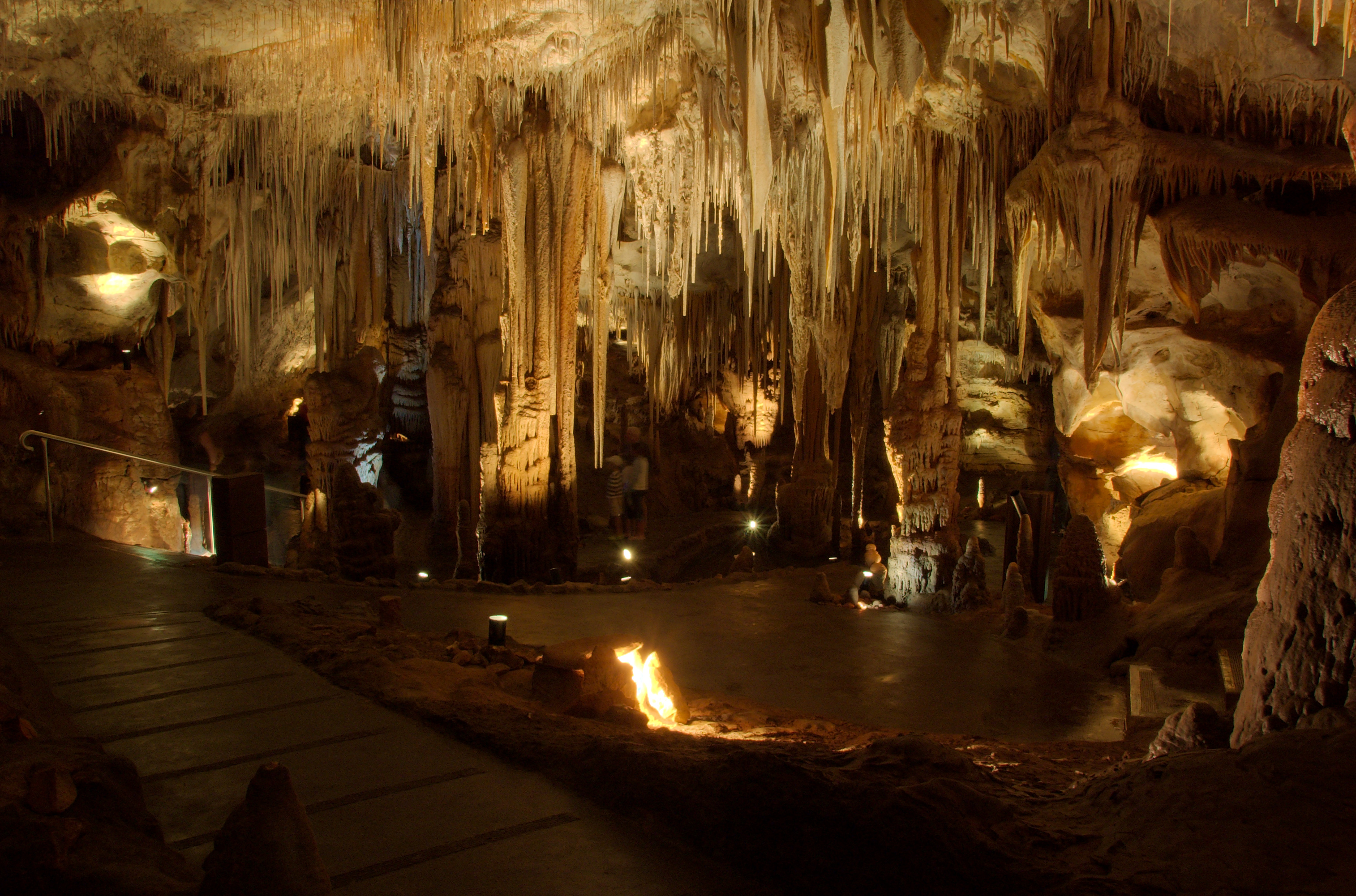 Interior of cave at Tantanoola, South Australia